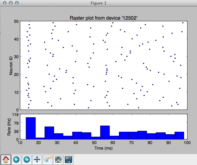 Rasterplot of a simulation of a sparse random network.